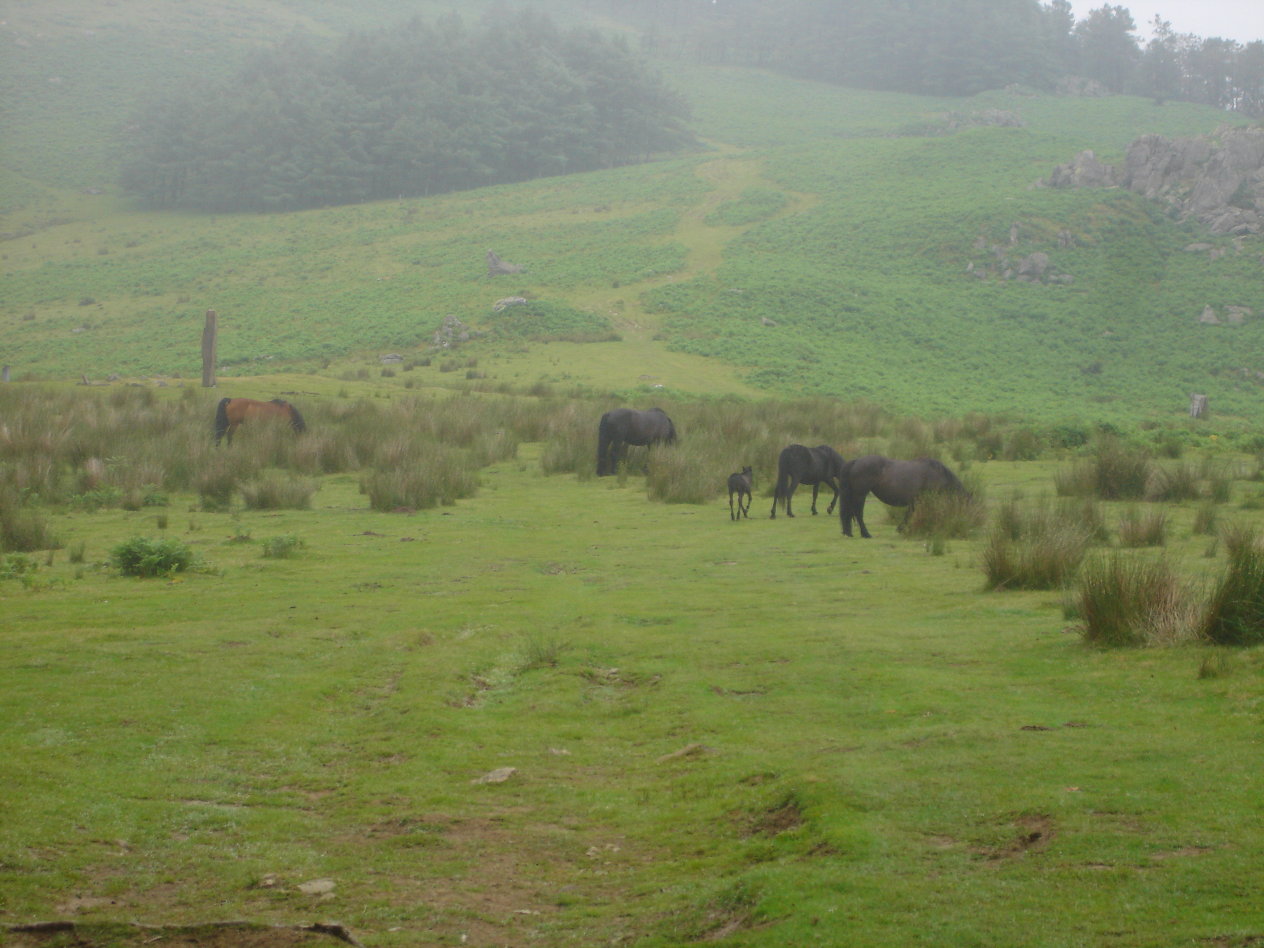 Monolith on the slopes of Adarra